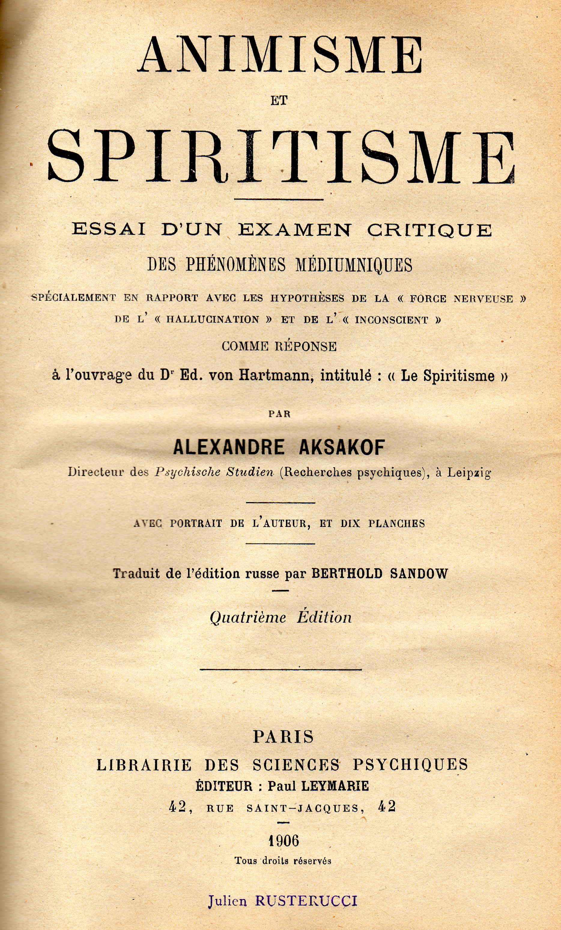 Flyleaf of the book of Alexandr Aksakov: Animism and Spiritism, 1906 Edition